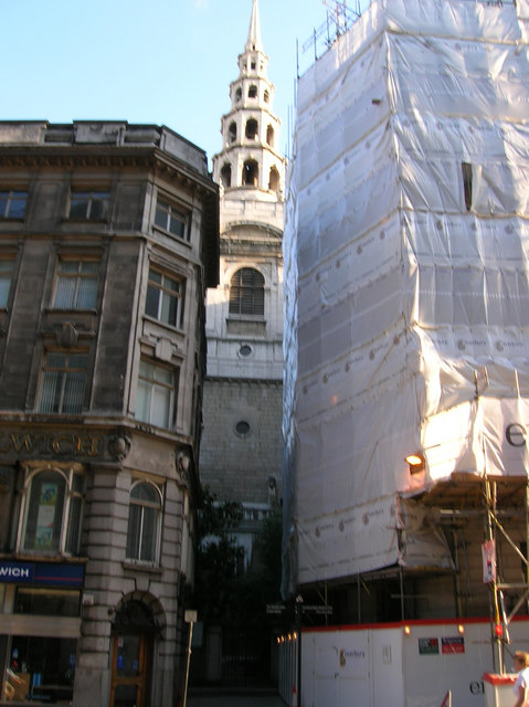 St Bride's Avenue EC4 and St Bride's Church From across the junction with Fleet Street EC4